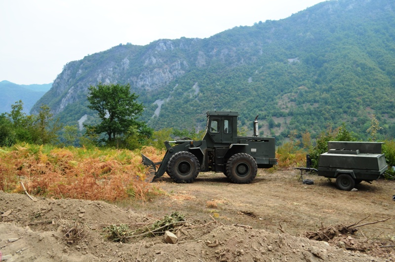 Military Montenegro